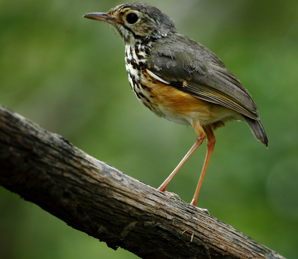 White-browed antpitta at Araripe - Ceará - Brazil